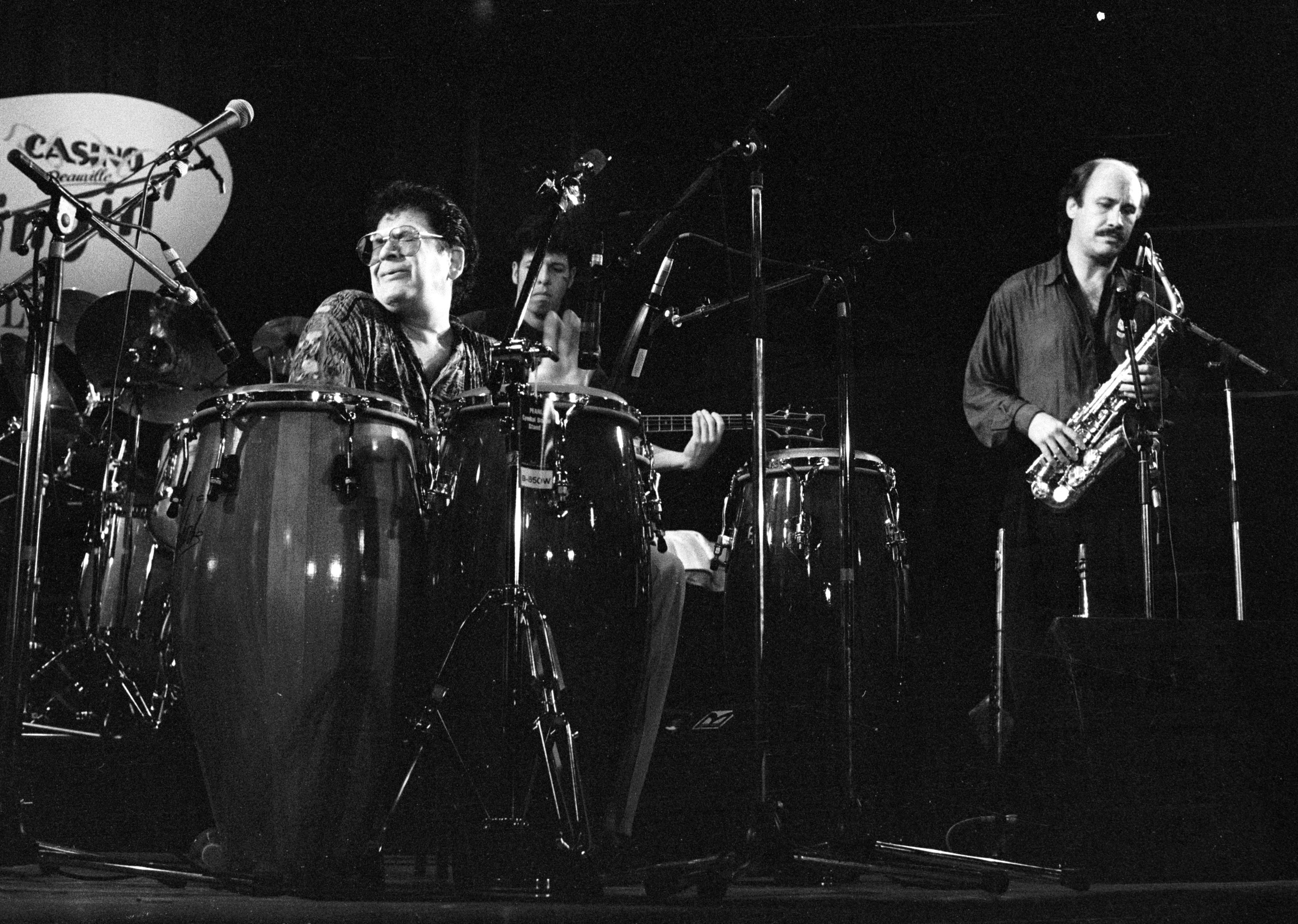 Ray Barretto (left) en concert à Deauville (Normandie, France) le 15 juillet 1991.